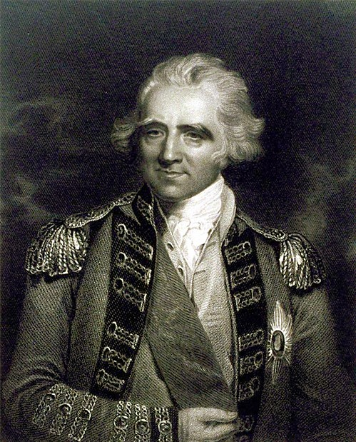 Sir Ralph Abercromby, (1734–1801), britischer General published 1 July 1834 by Harding & Lepard, Pall Mall East nach einem Original von John Hoppner, oil on canvas (circa 1798)